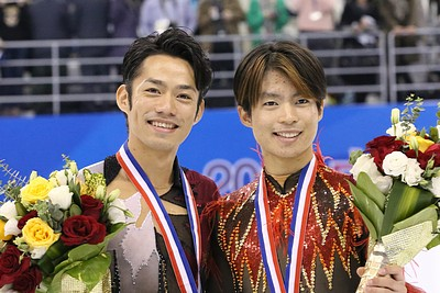 Tatsuki Machida (1st) and Daisuke Takahashi(2nd) at the 2012 Cup of China.